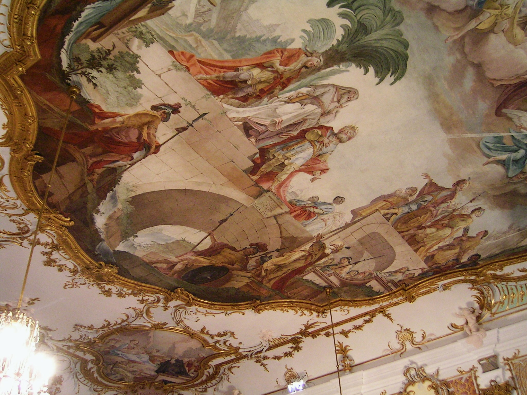 Part from the fresco by Matthäus Günther covering the ceiling of the Kleiner Goldener Saal at Augsburg, Germany